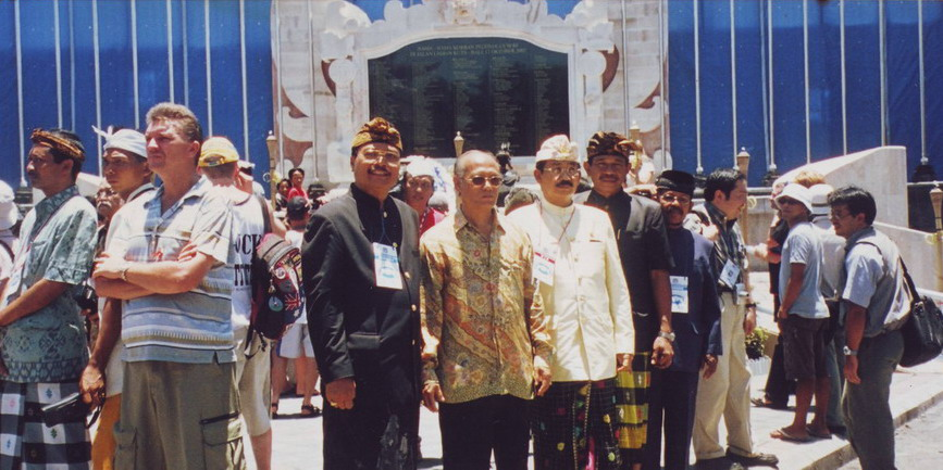 Nyoman Rudana attended the 2nd year commemoration of the 1st Bali Bomb Blast, on Oct 2004